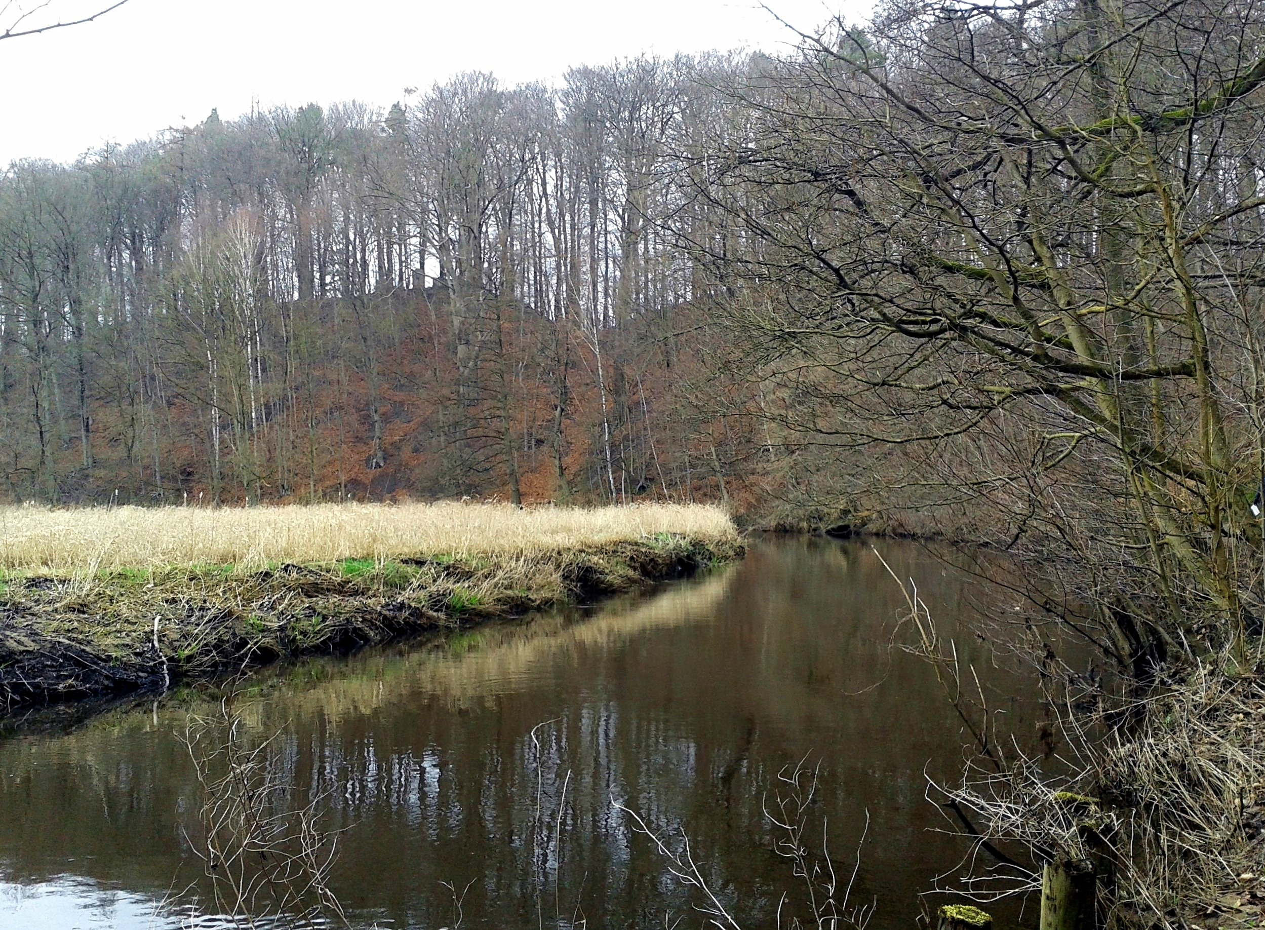 Steep banks of river Boehme in Bad Fallingbostel, Lower Saxony, Germany (Lueneburg Heath)